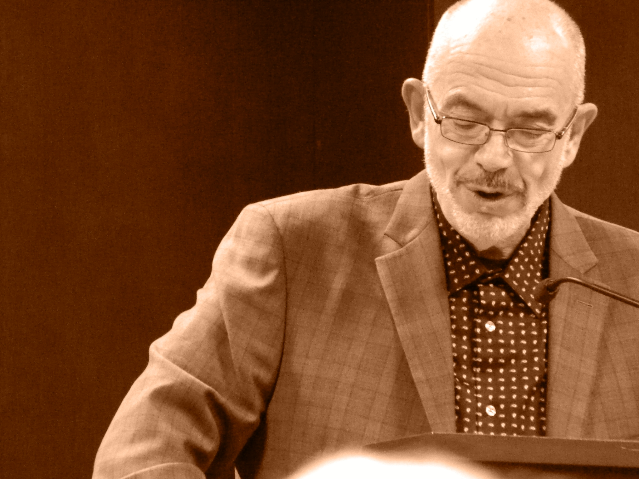 Lamb engaging audience at New York Barnes & Noble, Oct. 23, 2013.